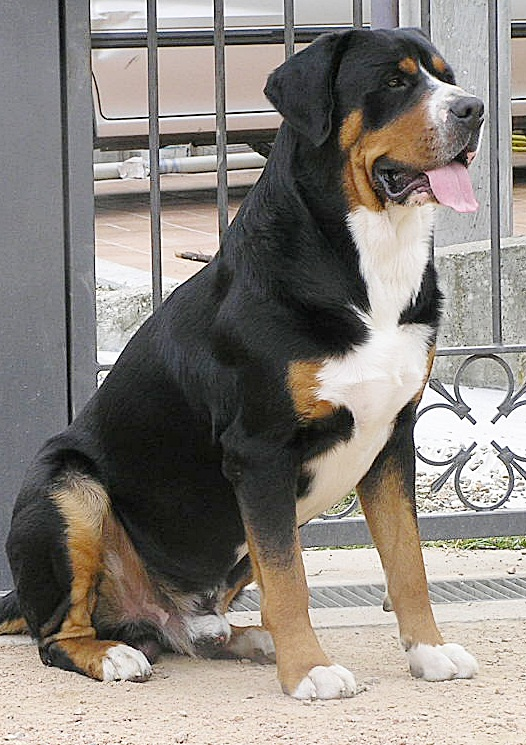 Greater swiss montain dog (Grosser Schweizer Sennenhund)